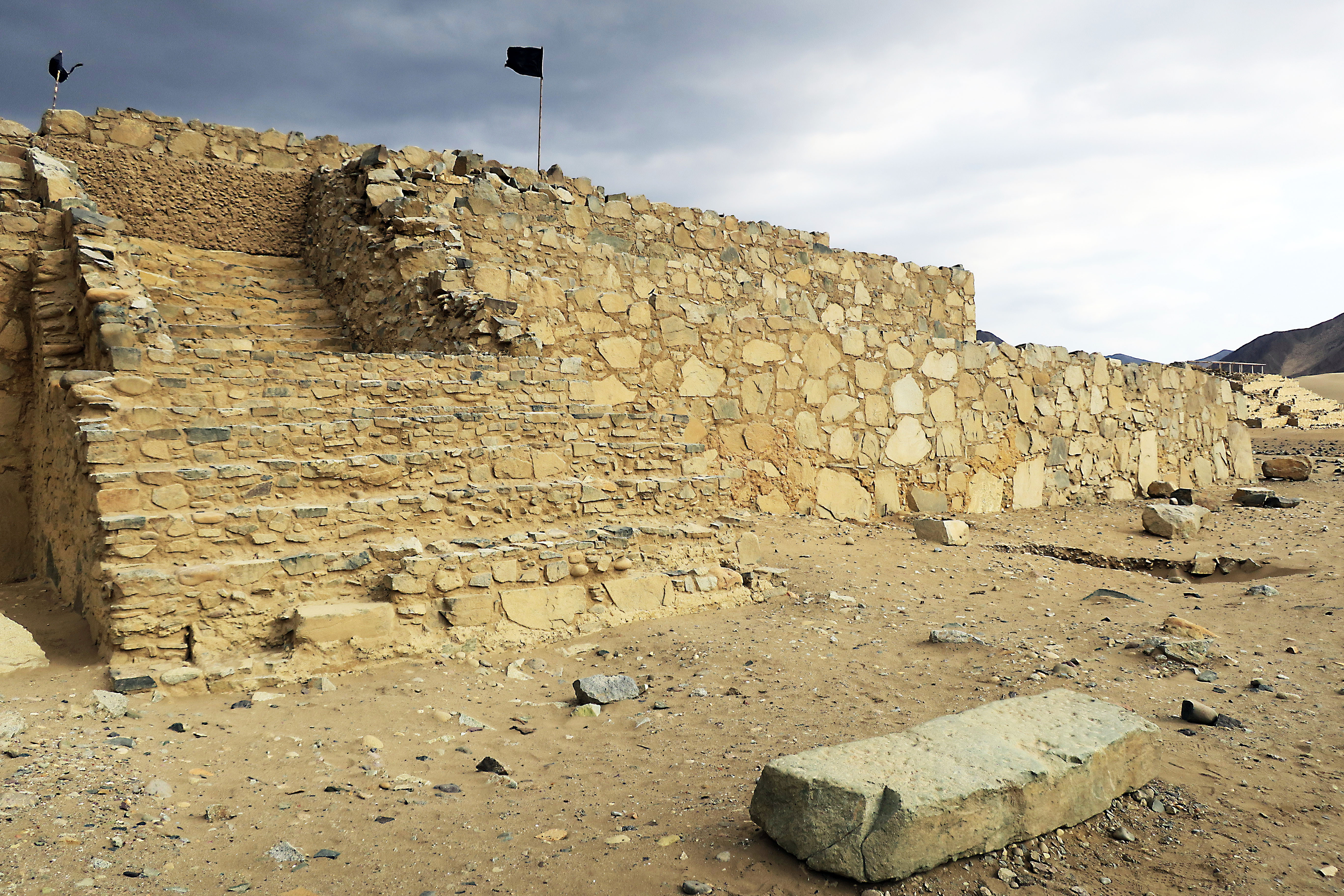 Sacred City of Caral-Supe